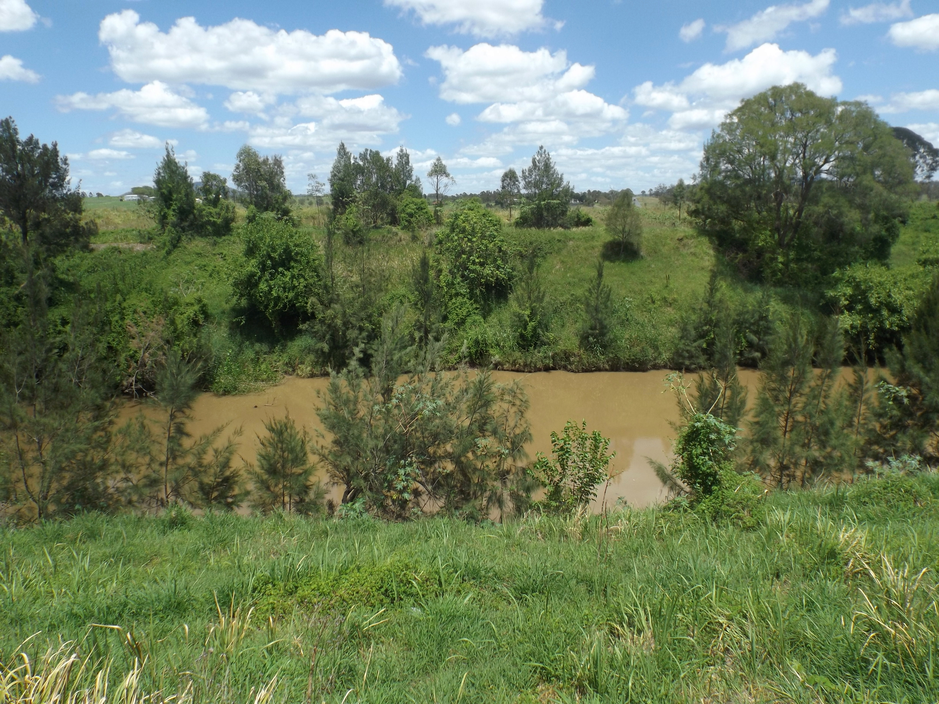 Photo of Logan River at Woodhill, Logan City, Queensland, Australia. The opposite bank of the river is within the boundaries of Allenview.